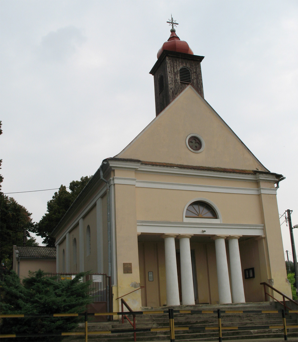 Church of Horné Krškany